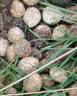 Droppings of rabbit (Oryctolagus cuniculus)